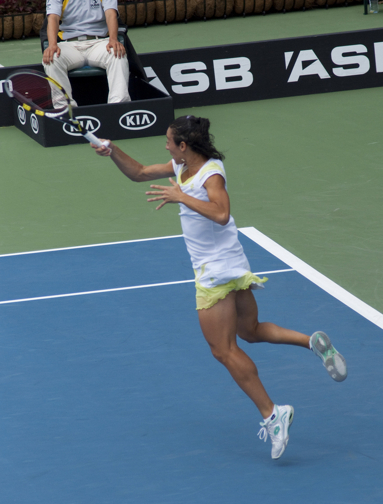 Francesca Schiavone in 2010